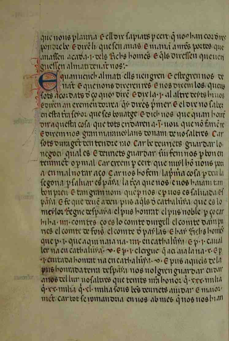 Sheet cliiii verso of Llivre dels feyts del rei en Jacme (1343)